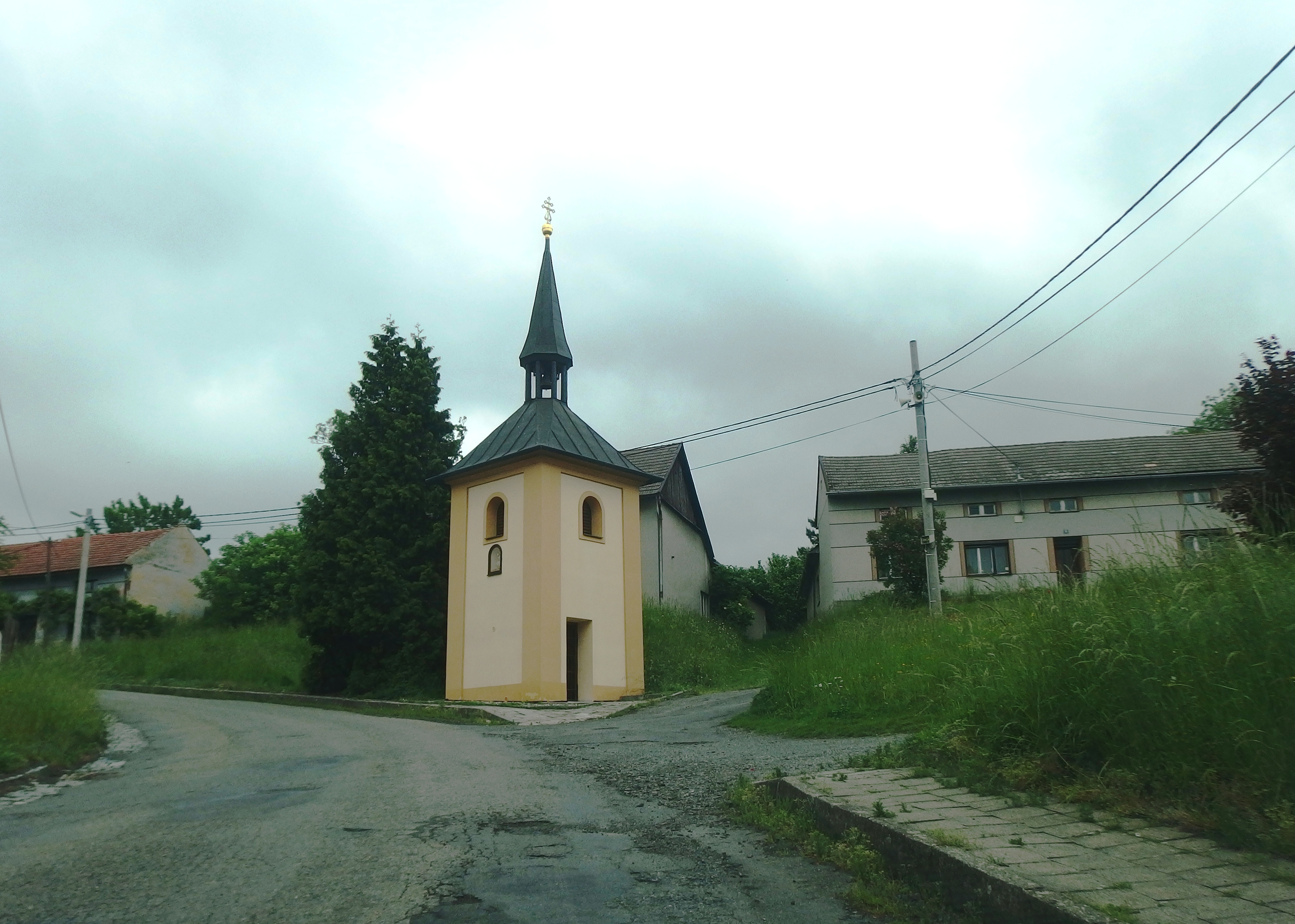 Bystřice pod Hostýnem, Kroměříž District, Czech Republic, part Sovadina.